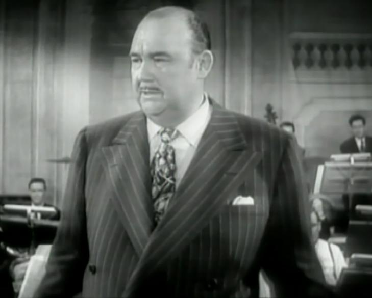 Paul Whiteman in The Fabulous Dorseys (cropped screenshot)